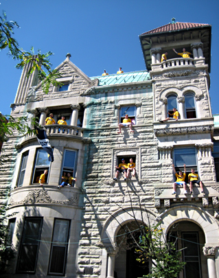 Pi Kappa Phi Fraternity – Alpha Tau Chapter – "The Castle" Rensselaer Polytechnic Institute, Troy, New York This building is the former Paine Mansion, designed as the home of John W. Paine by the Washington architect, P. F. Schneider in 1894. Featuring a quarry-faced limestone façade, this building was completed at a cost of $500,000 in 1896, and was heralded as the most extravagant residence in Troy. Additional information is available at